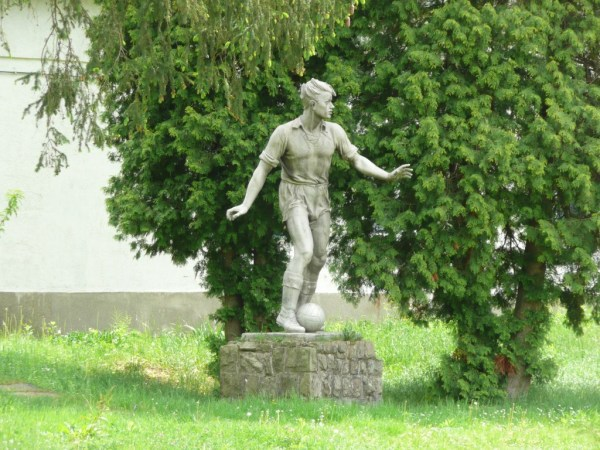 Footballer (sculpture, Komló, Hungary)